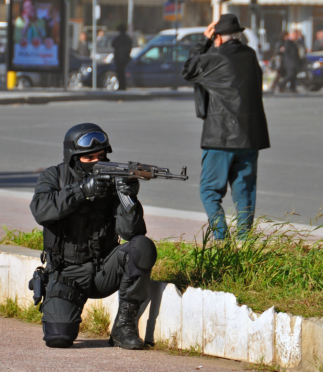 RENEA's Operator in a demonstration at ALMEX 2010 Exhibition in Tirana